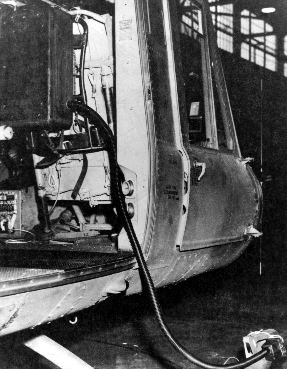 Mockup of the XM-2 "people sniffer" on a UH-1 aircraft